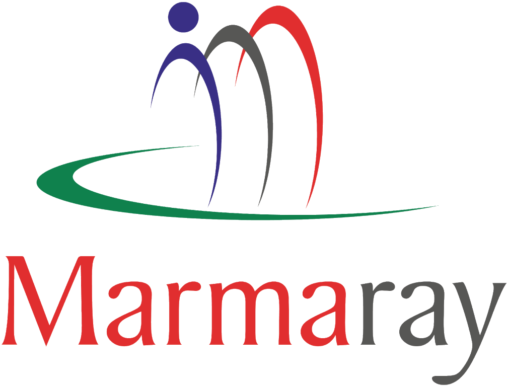 Istanbul suburban rail line Marmaray logo.